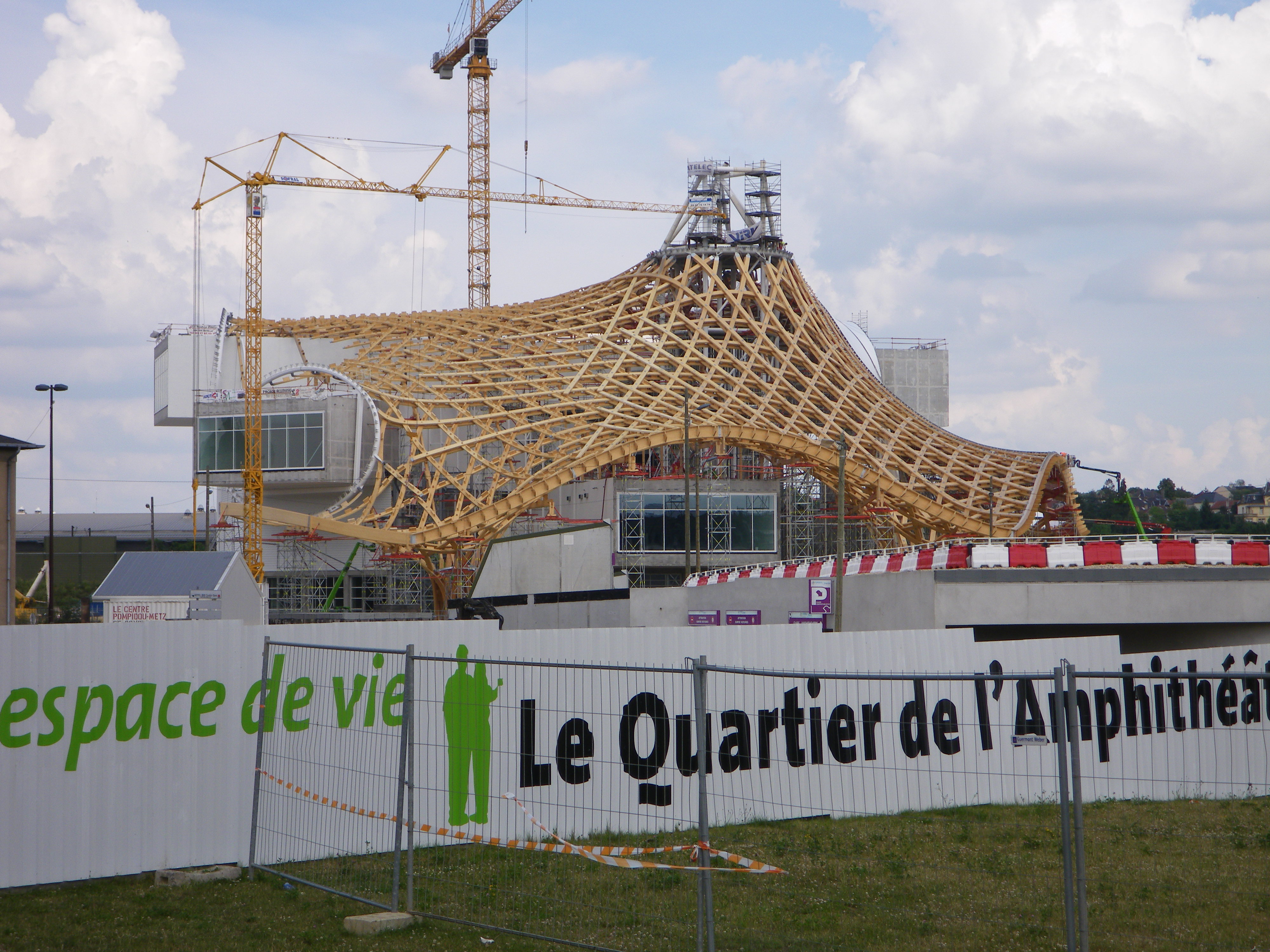 View of the Center Pompidou-Metz during the building of the roof.